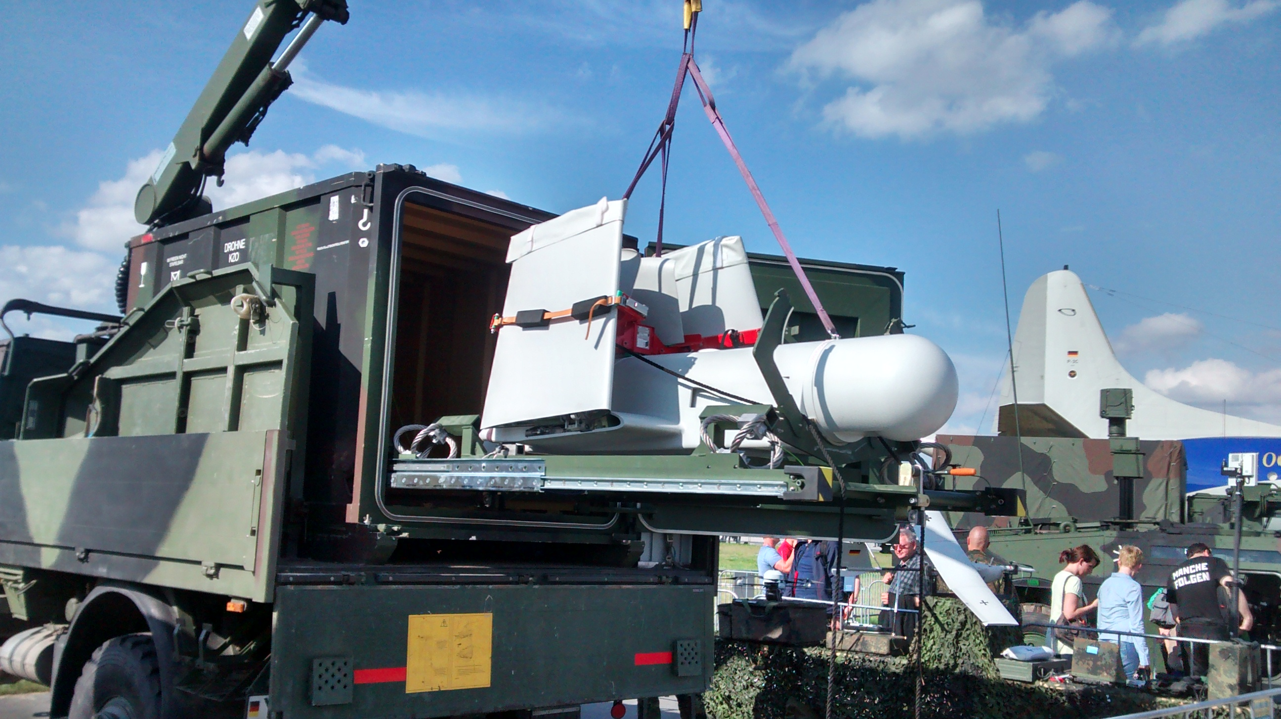 KZO UAV out of transport box